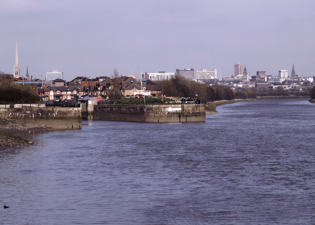 Riversway Docks, Preston